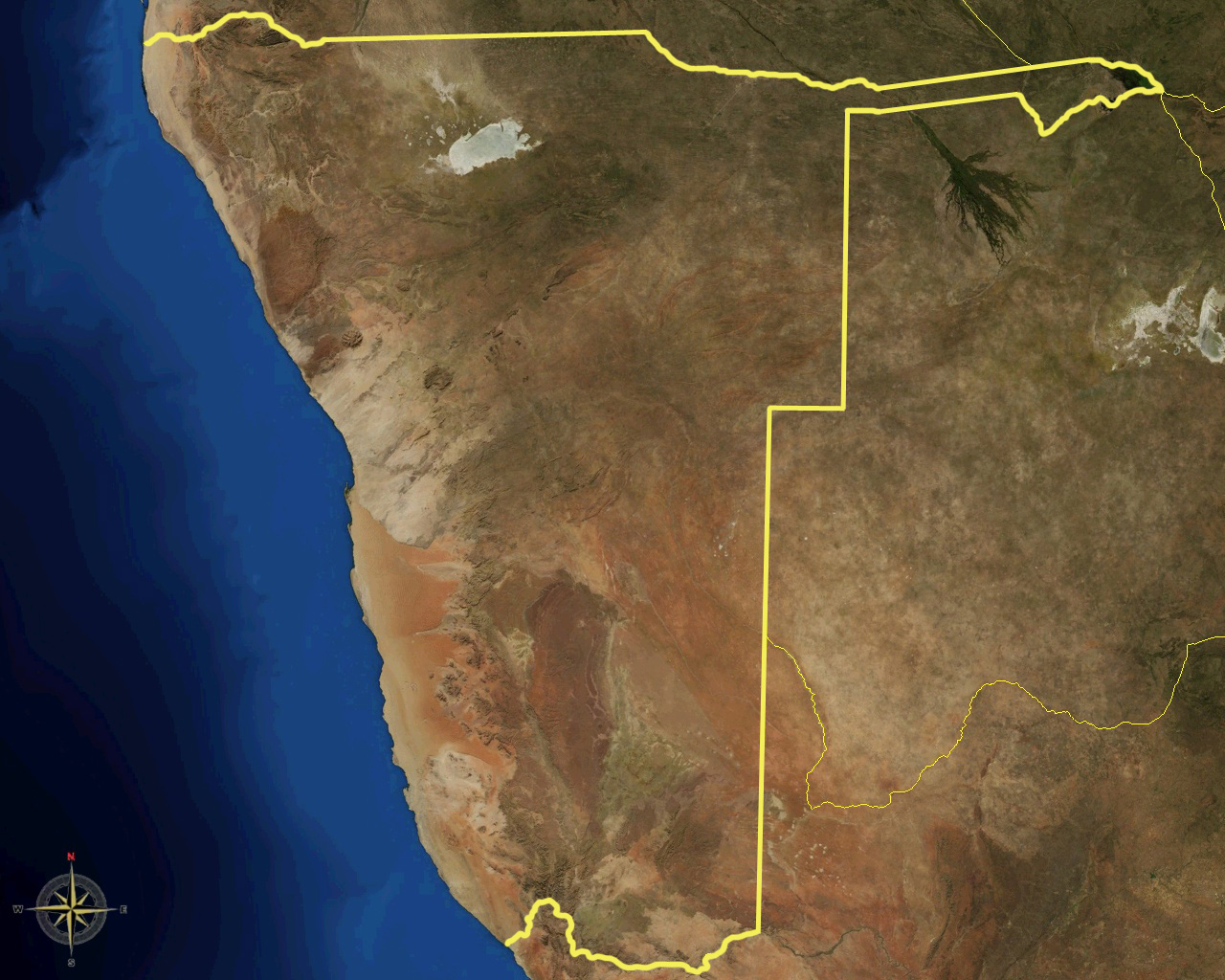 Namibia